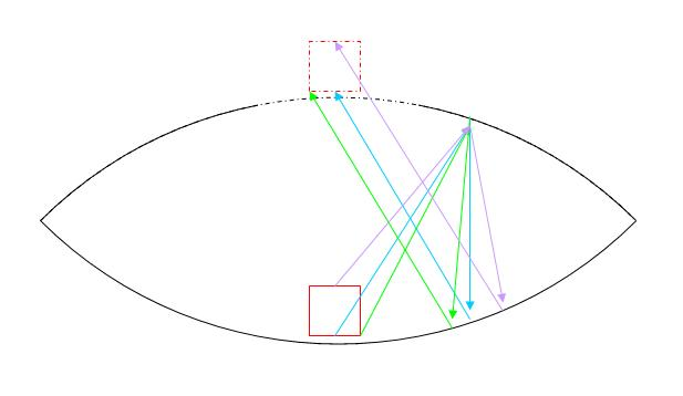 light path from an object